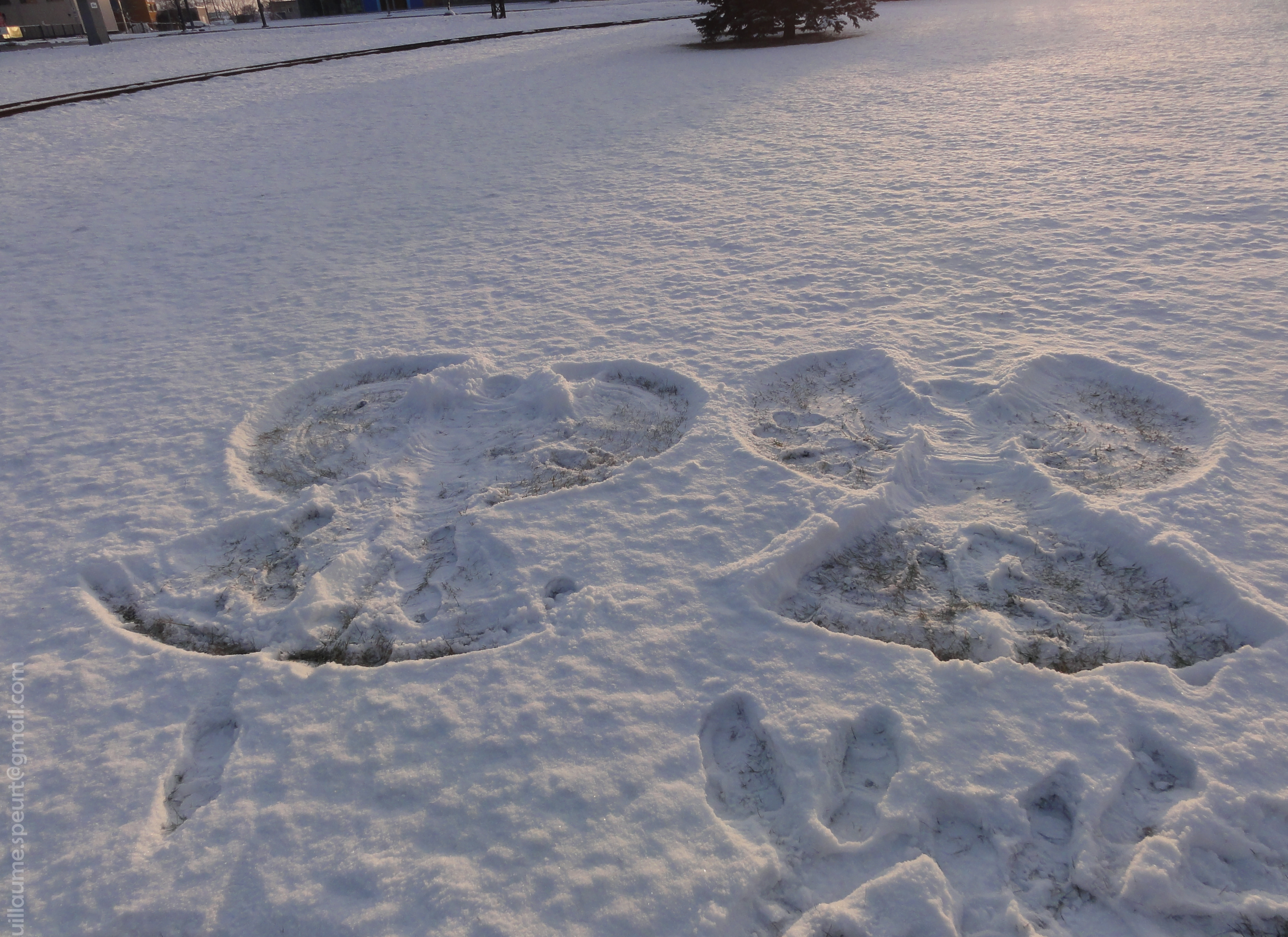 Snow angels